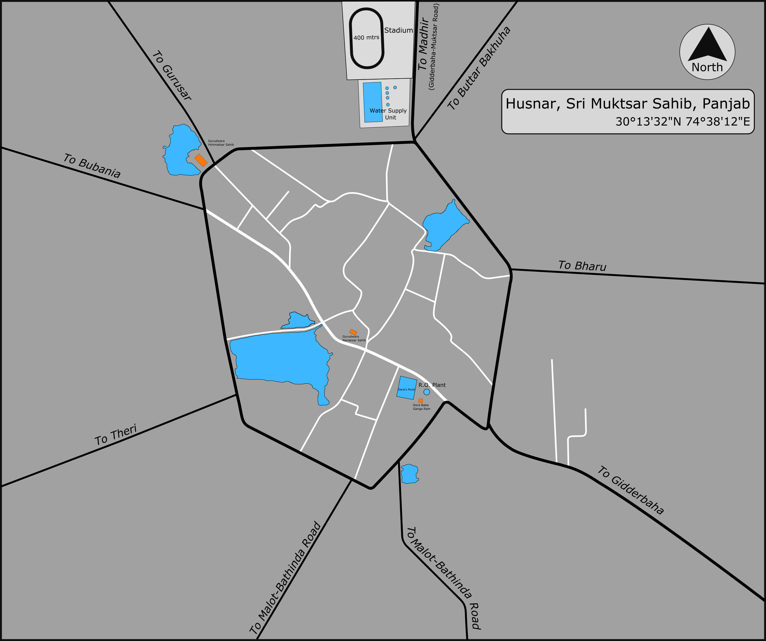 Map of village Husnar in Sri Muktsar Sahib district of Panjab.